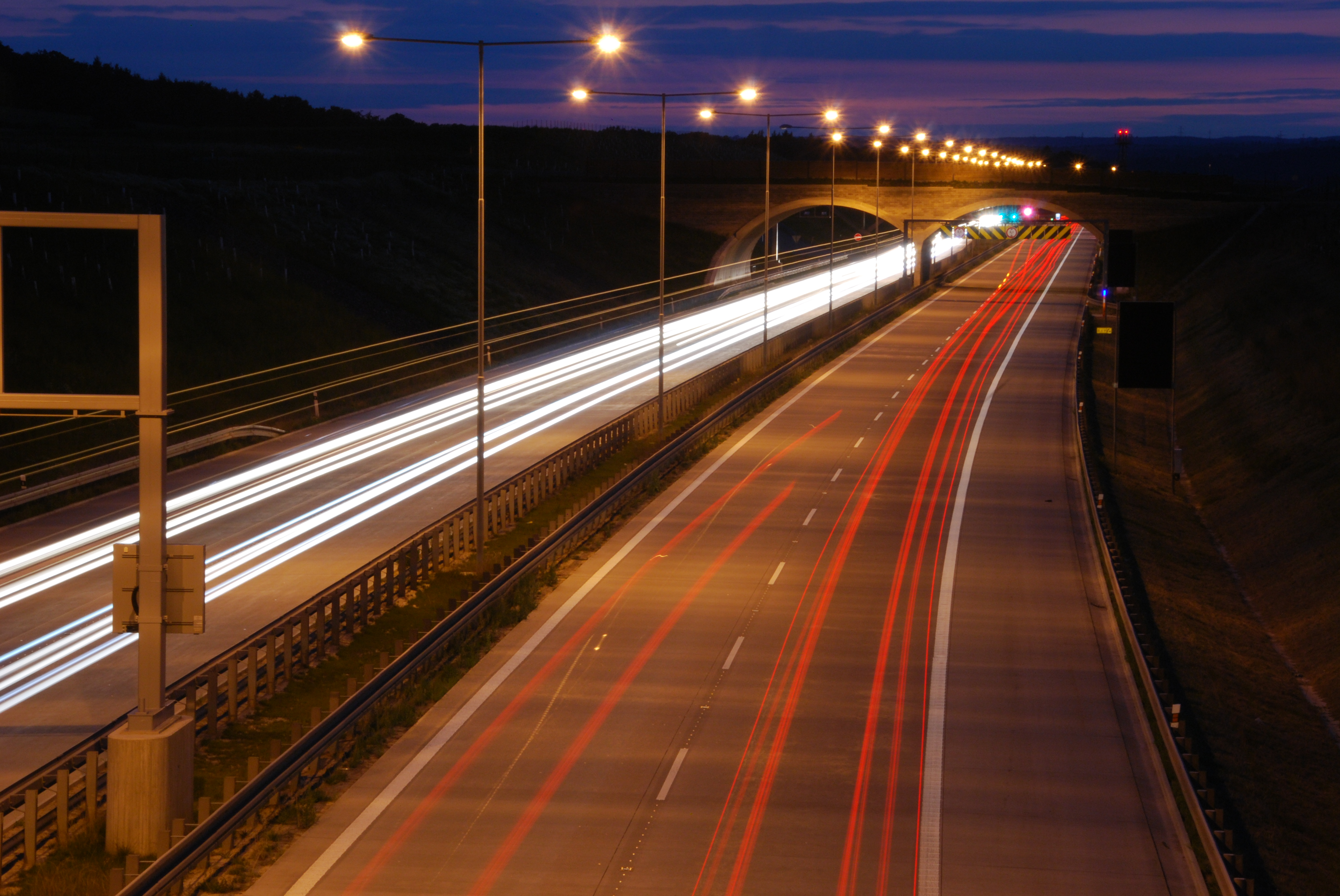 Ring road around Prague at night (No. 513) near Dolní Břežany village.